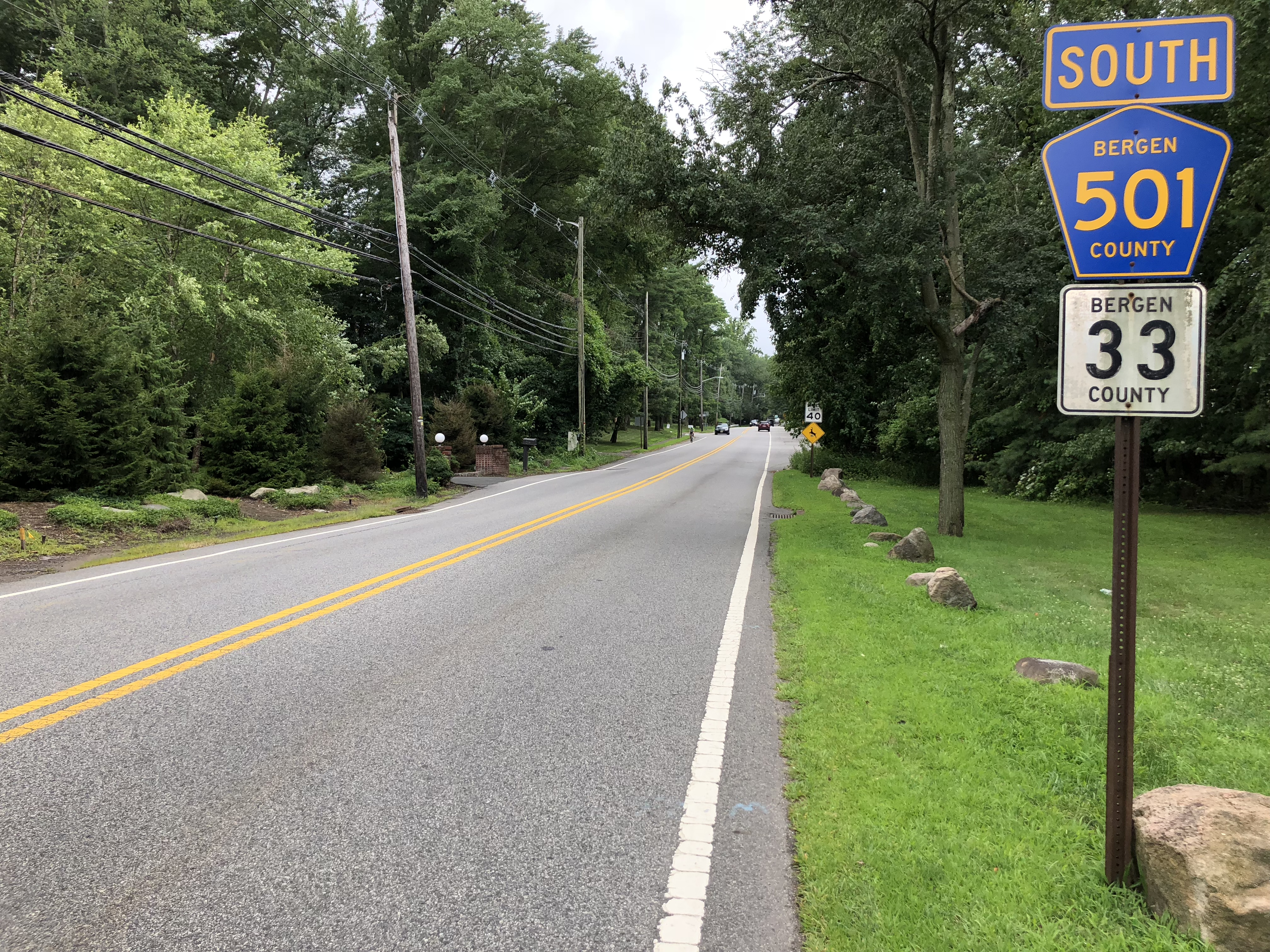 View south along Bergen County Route 501 and Bergen County Route 33 (Piermont Road) at Bergen County Route 106 (Broadway) in Norwood, Bergen County, New Jersey